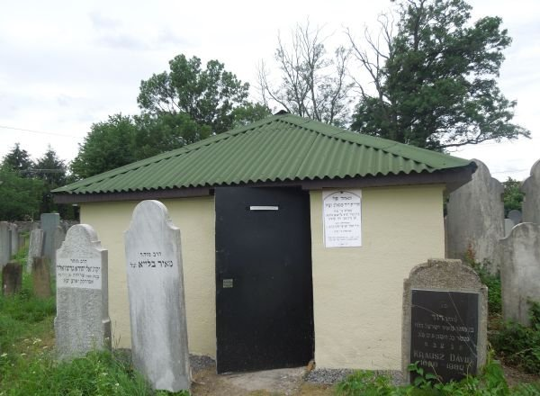 Ohel of Khust Rabbis Moshe Greenwald, Moshe Schick